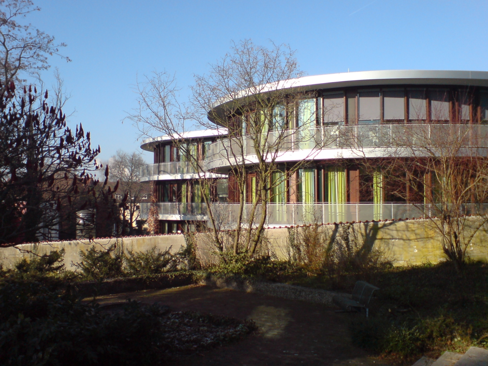 The children's hospital wing of the Alice Hospital in Darmstadt, Germany. Note the curved circumference (here seen from the south) which gives the building a roughly four-leafed clover shape from above.